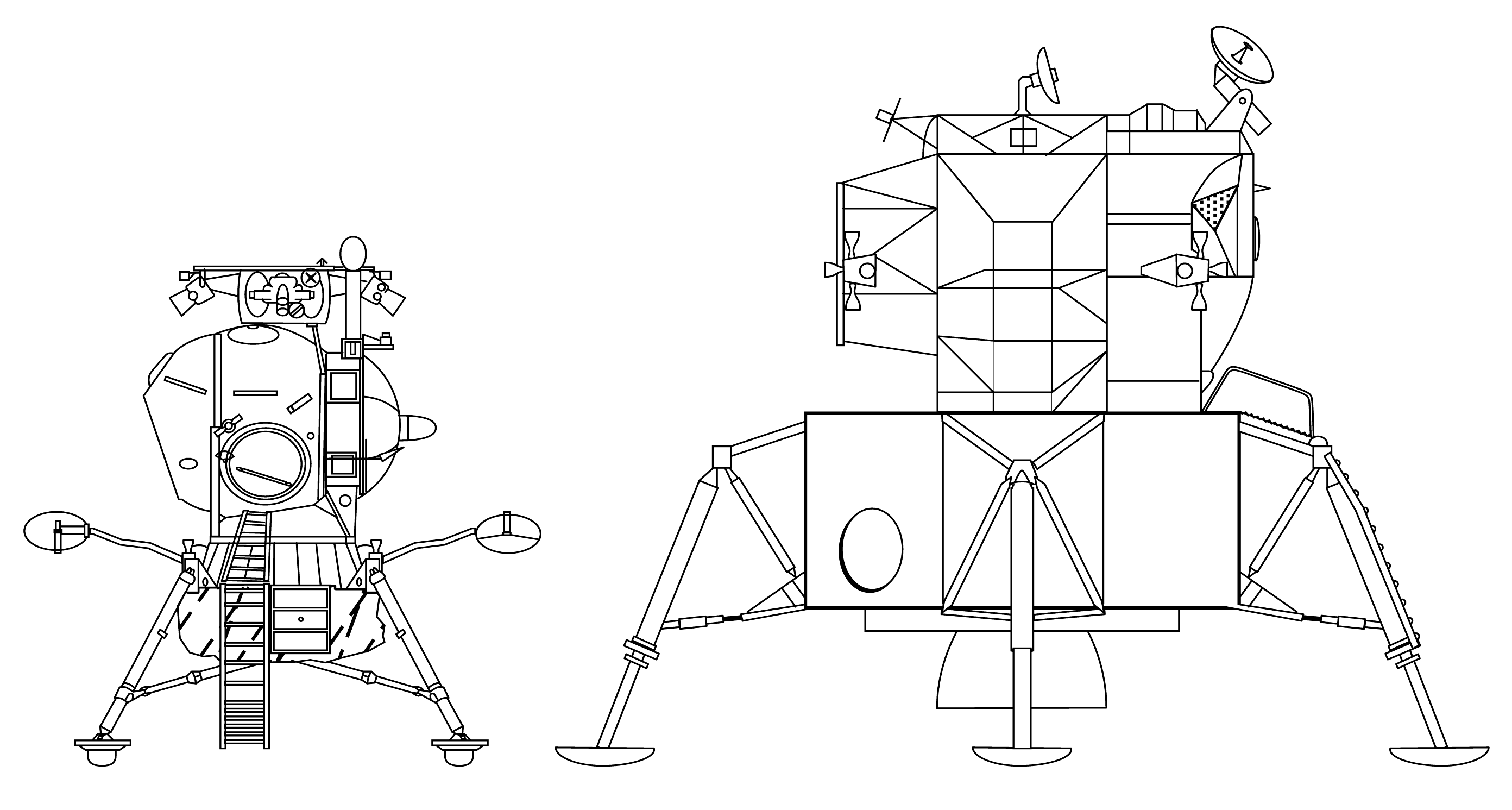 Figure 4-2. Soviet L3 (left) and U.S. Apollo LM (drawn to scale). Manned moon landers.